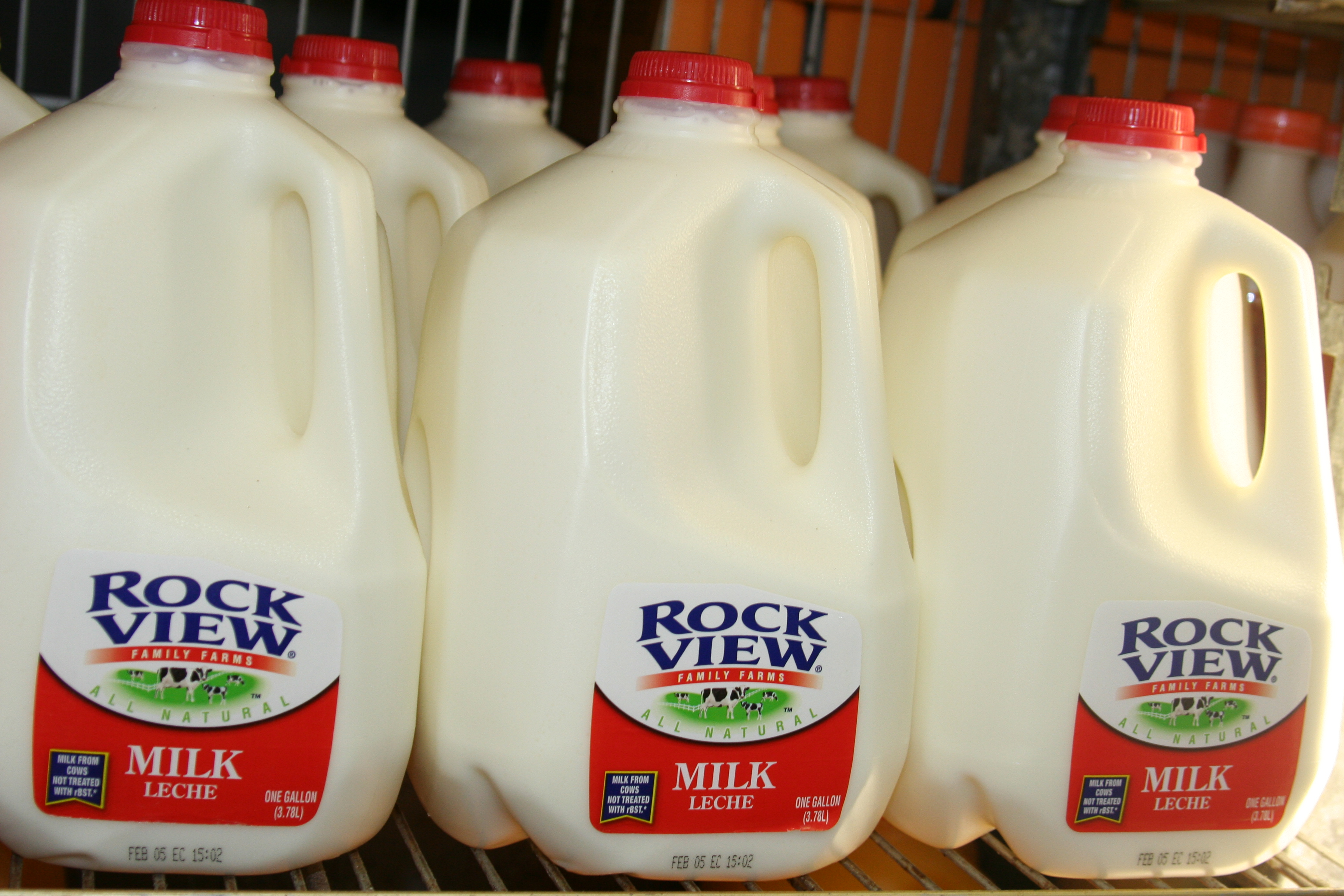 Gallon milk jugs – This photo is dedicated to a great wikipedian and an innovator in milk juggery. You know who you are.